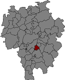 Location of Santa Eugènia de Berga in Osona